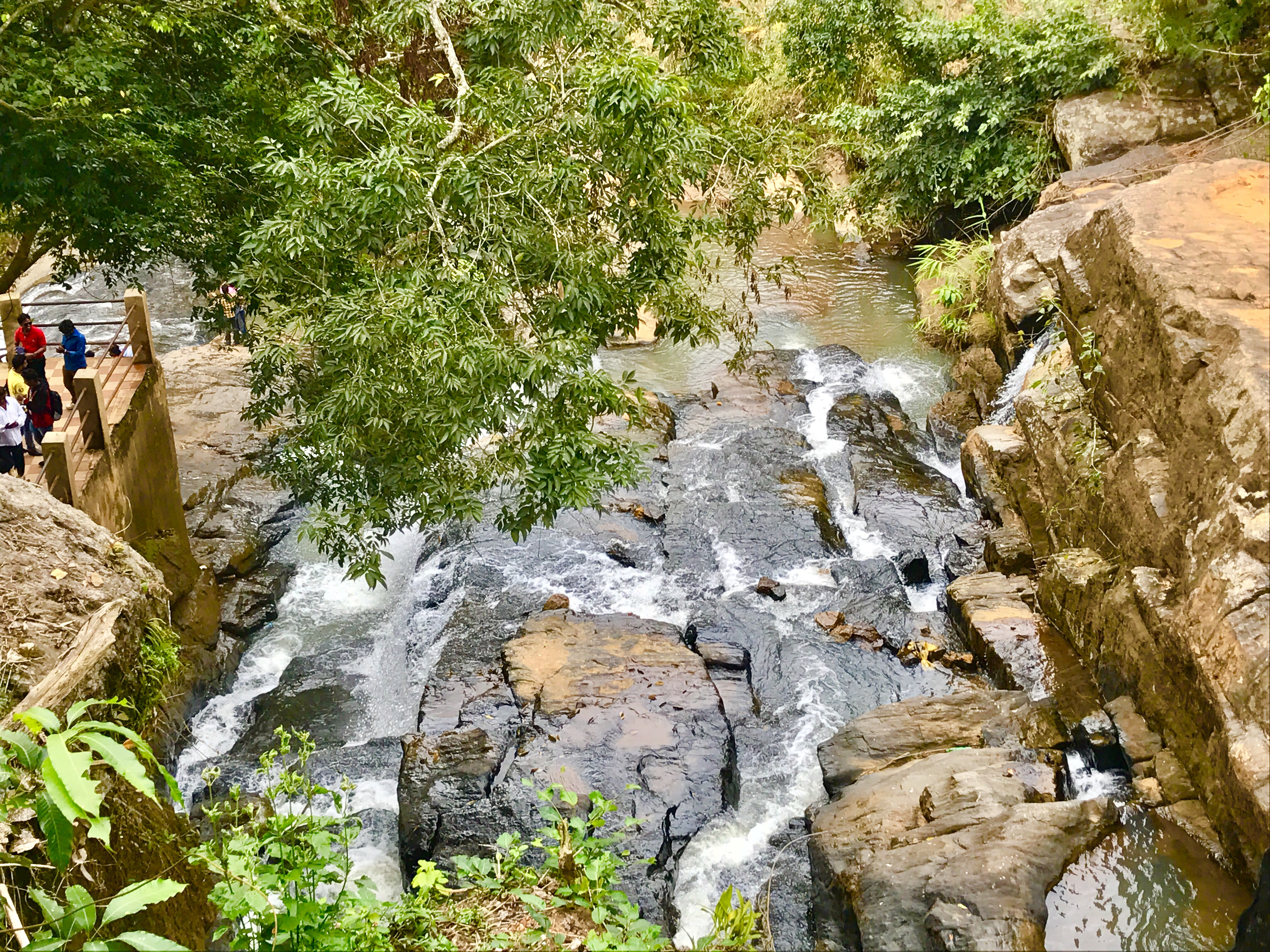 Chitapalle Waterfalls